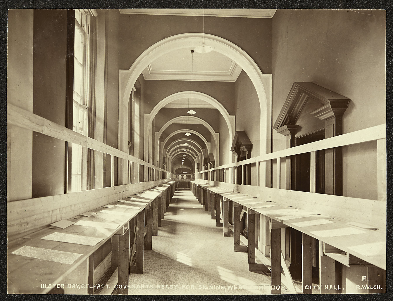 Creator: R. Welch (Photographer) Date: 1912 Original Format: Photographic Print Description: Ulster Day, Belfast City Hall. Covenants’ ready for signing, Belfast , Co. Antrim. PRONI Ref: D1403_2~060~A Copying and copyright: Please For Copy Orders, contact: For fees and charges